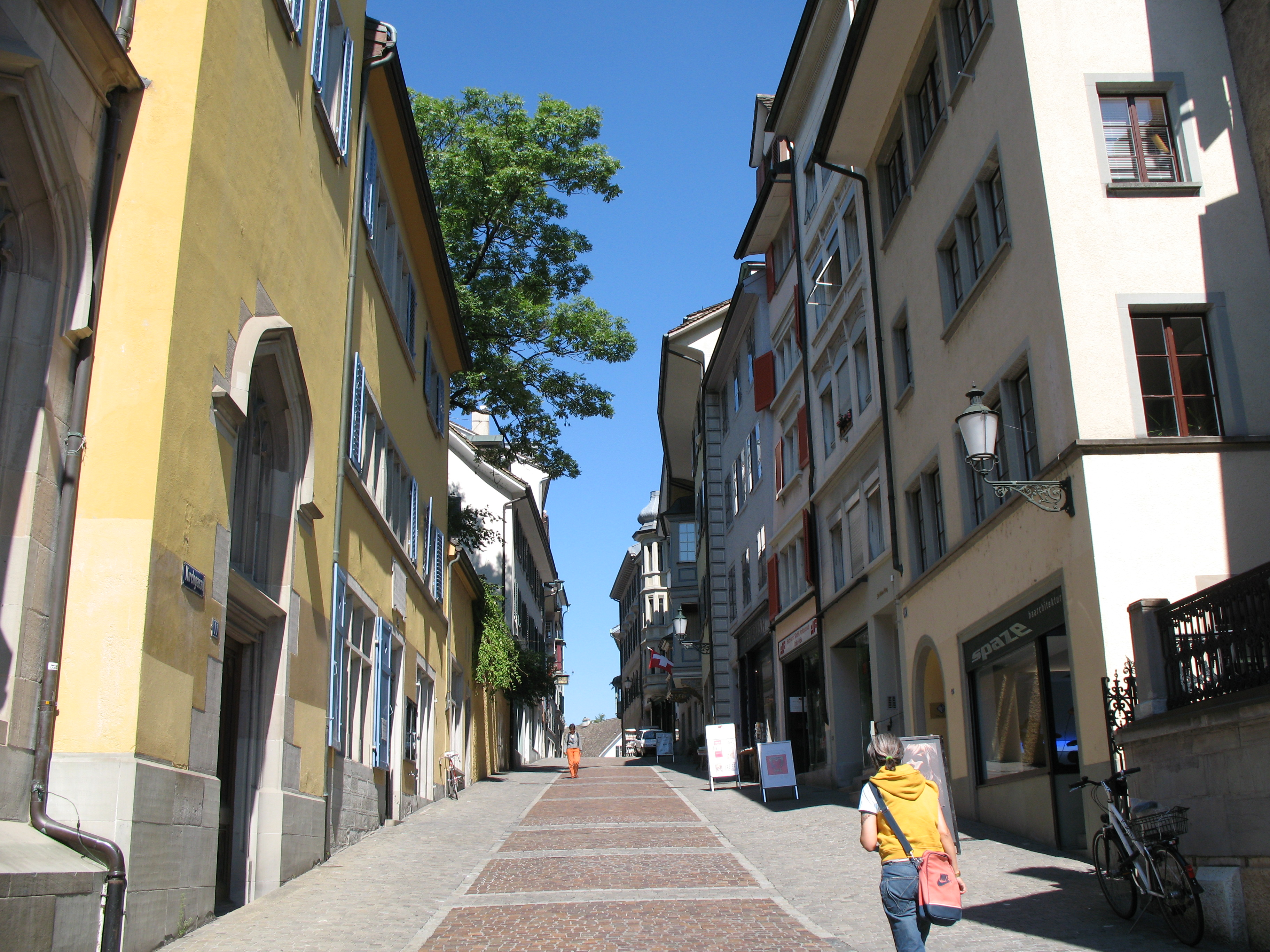 Church Lane, Zürich, Switzerland